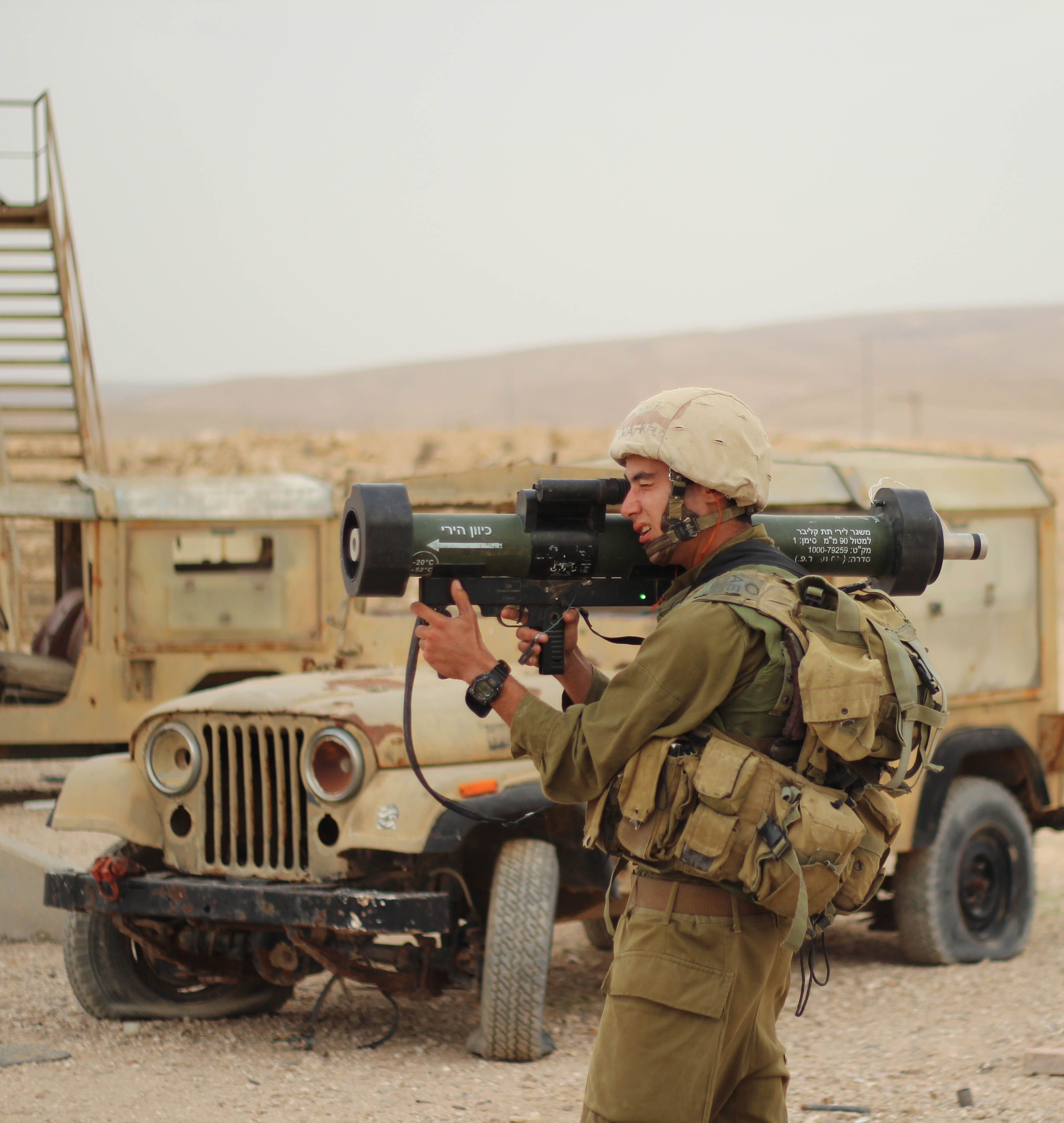 December 4, 2012 Nahal's Special Forces conducted a firing drill in southern Israel with a range of different weapons. The firing course was part of their advanced training where they learn to specialize in a certain firearm. Photo by Zev Marmorstein, IDF Spokesperson's Unit For more from the IDF